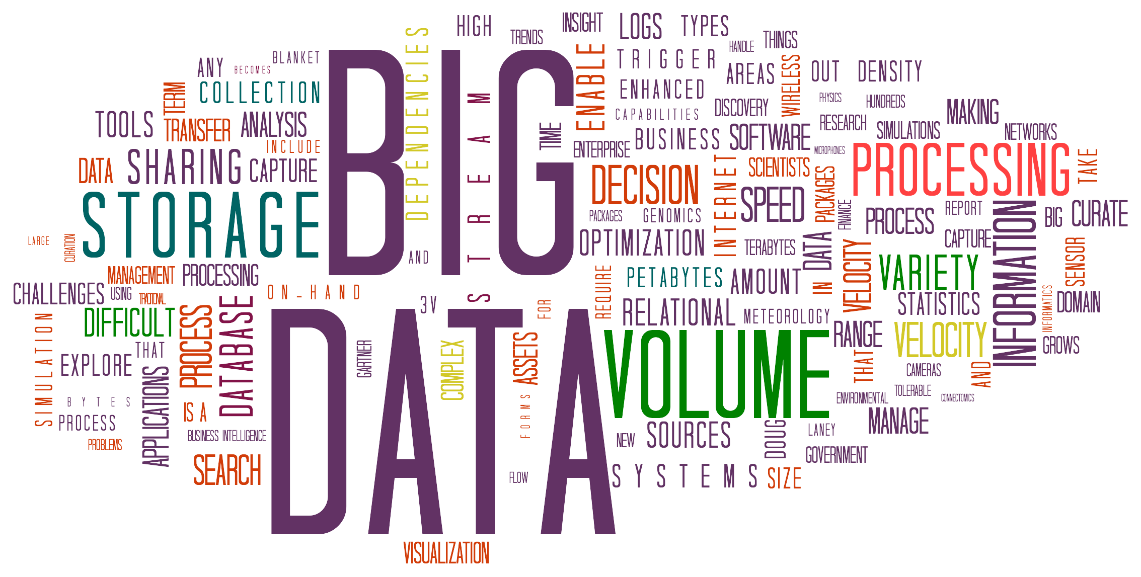 Big Data's definition illustrated with texts, size 2267x1146px, transparent background